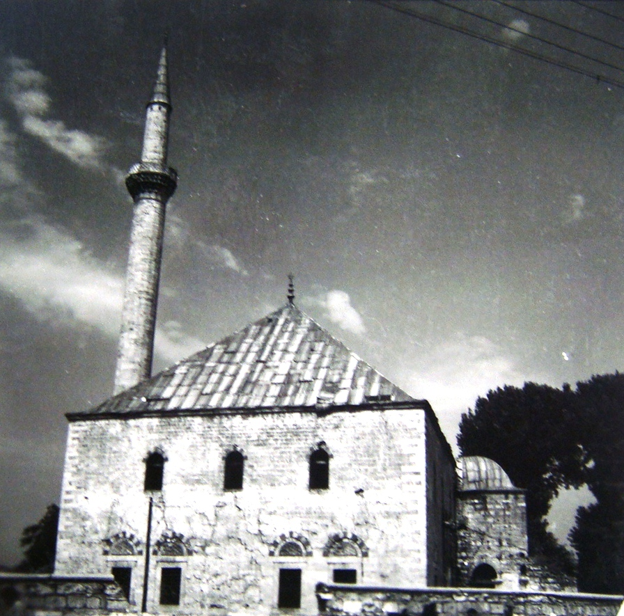 1963 Skopje earthquake: Јаја пашина џамија, по земјотресот. Yaya Pasha after the earthquake This media file is produced by Wikipedian in Residence in Category:Wikipedian in Residence at DARM in 2016.